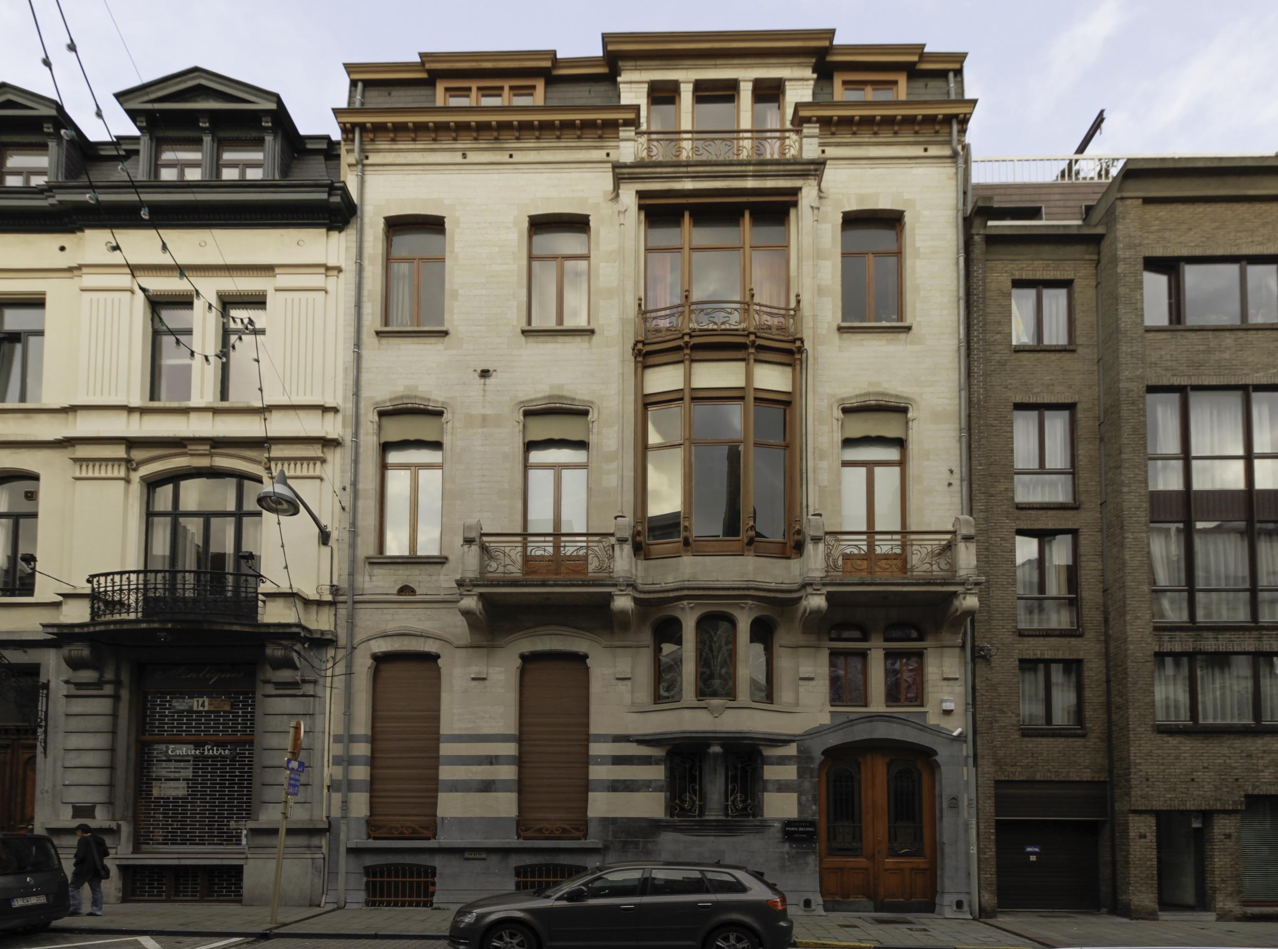 Brussels in wide angle